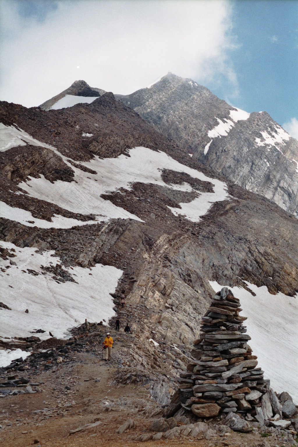 Hochfeiler, upper south-west-ridge